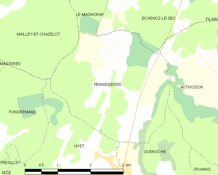 Map of French municipality